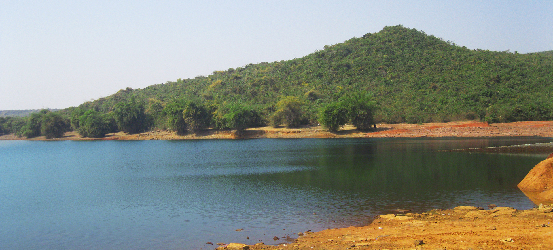 Deras Dam